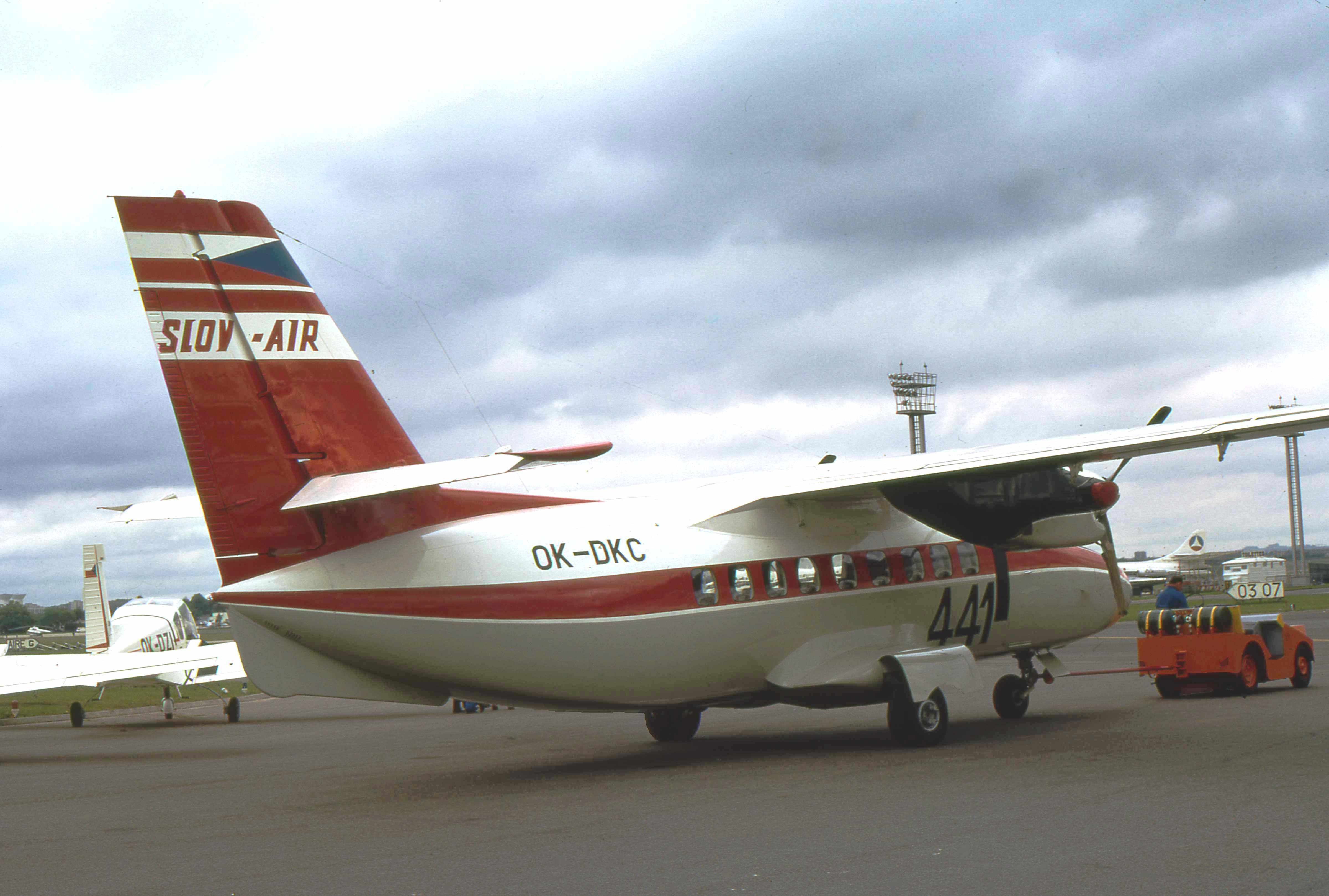 France, Paris Air Show 1973. The Czech short range transport aircraft Let L-410 Turbolet shown at the static display.